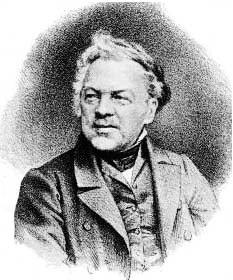 Russian writer Ivan Ivanovich Lazhechnikov